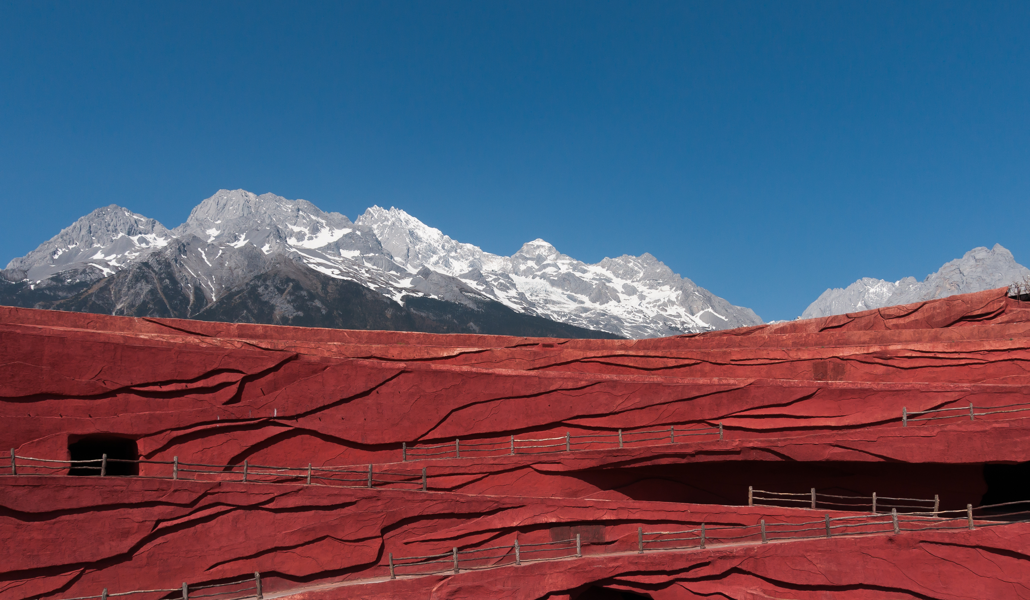 Lijiang, Yunnan, China: Jade Dragon Snow Mountain Theatre by Zhang Yimou. Located at a height of 3500m above sea level, the theatre is featuring more than 500 people in a show, which has been produced by Zhang Yimou of Hero, House of Flying Daggers fame, and Fan Yue and Wang Chaoge.